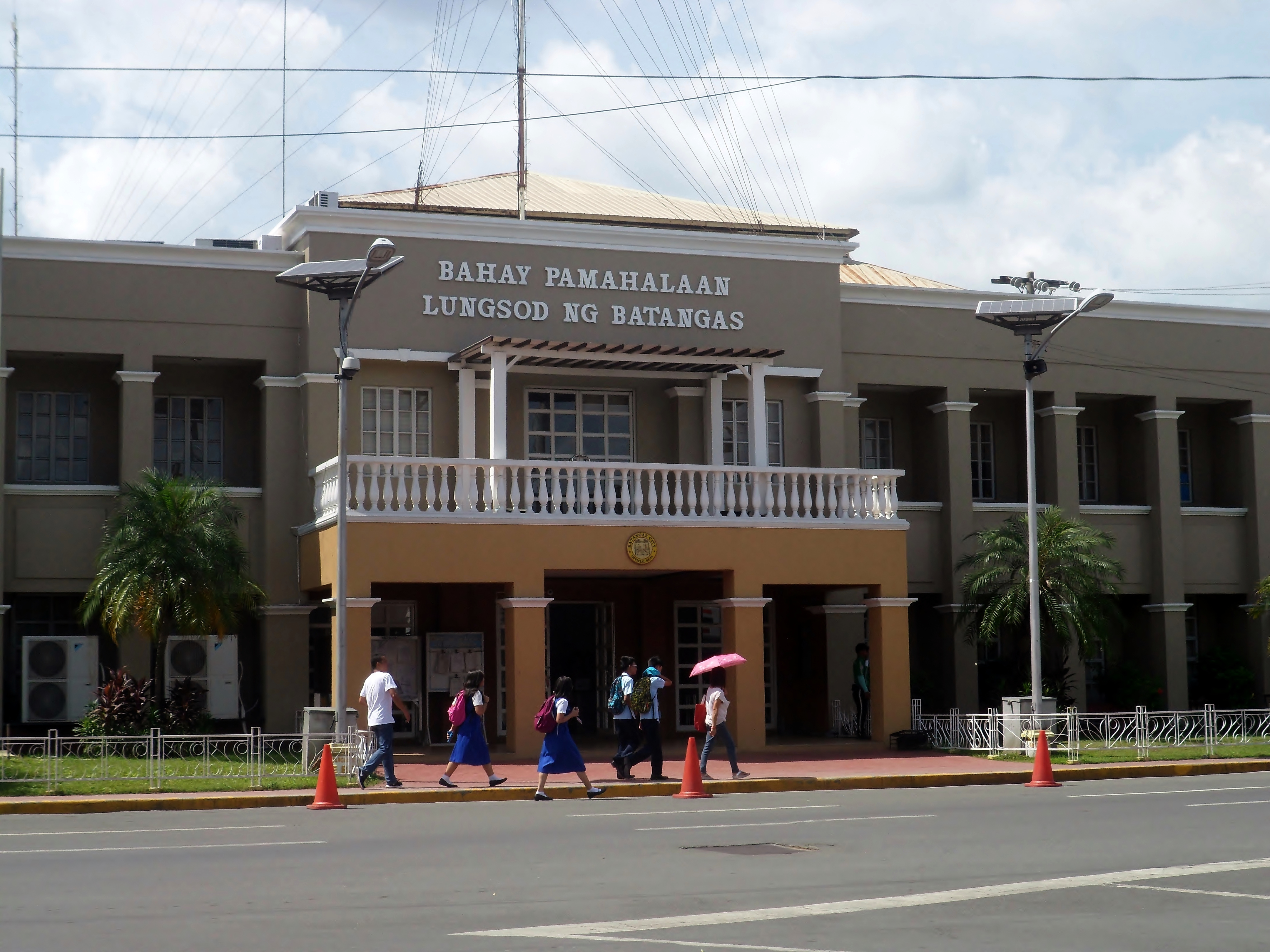 Batangas City Hall, seen from the northwest side of Plaza Mabini.